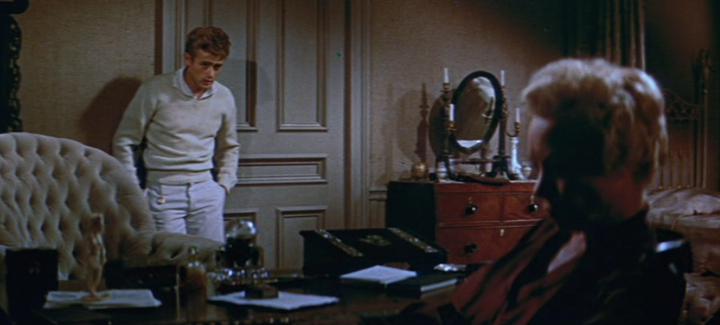 Cropped screenshot of James Dean and Jo Van Fleet in the trailer for the film East of Eden